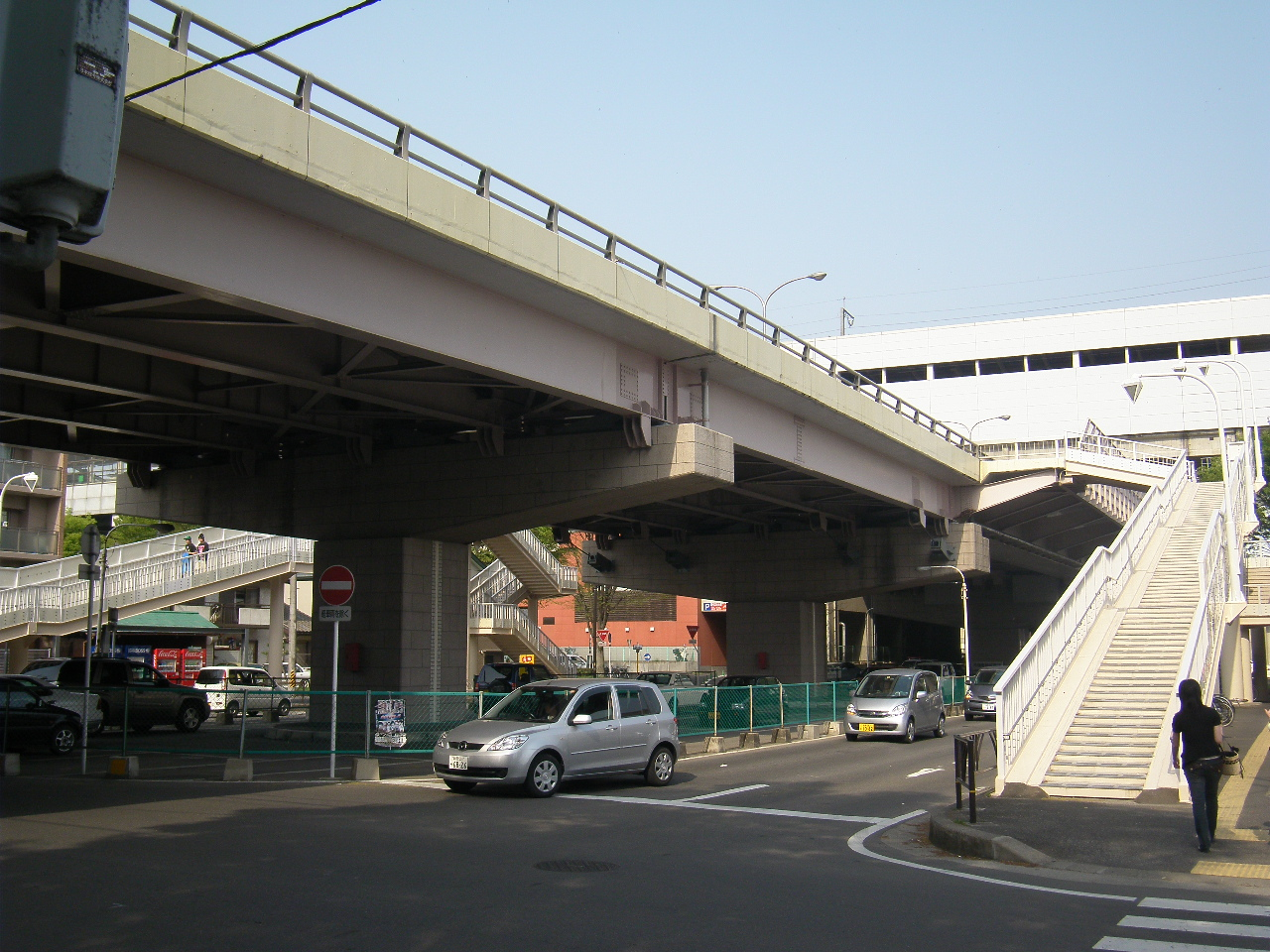 Azuma Overpass Bridge. Otamashi, Fukushima, Fukushima prefecture, Japan. Eastward.